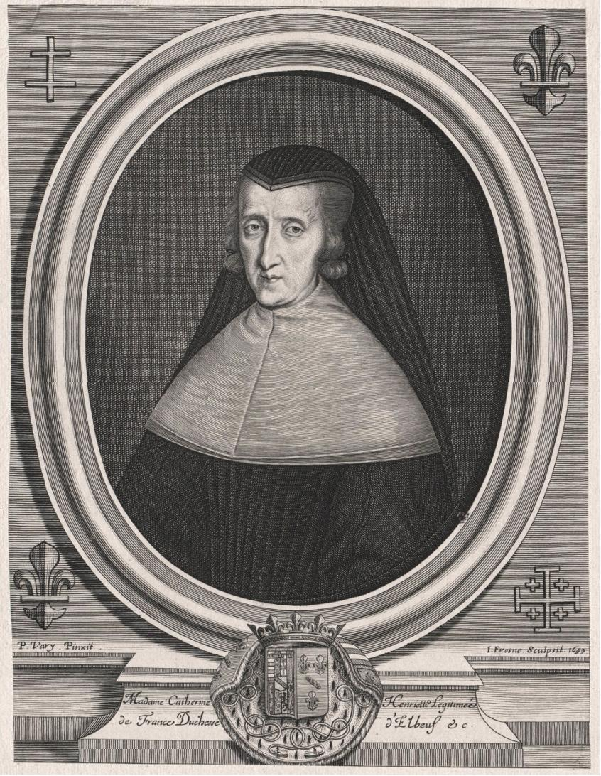 Portrait of Catherine Henriette de Bourbon (1596-1663), daughter of Henry IV of France and Gabrielle d'Estrées